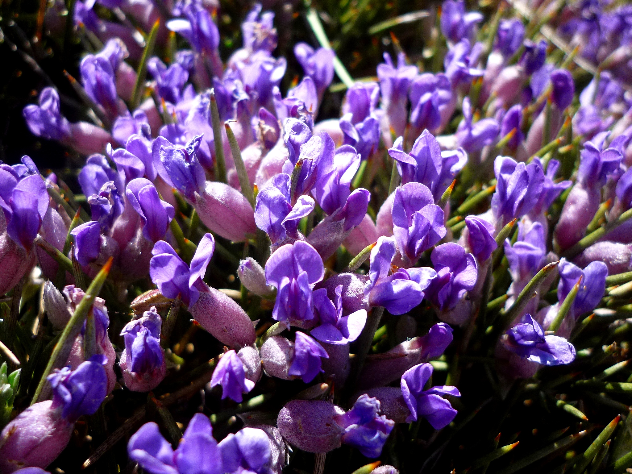 Erinàcea anthyllis. Near Roc de Galliner, in l'Alzina d'Alinyà (Alt Urgell-Catalunya). To 1.500 m. altitude